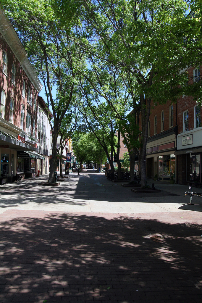 View up Loudoun Street in Winchester, Virginia. Photo by W. Grotophorst